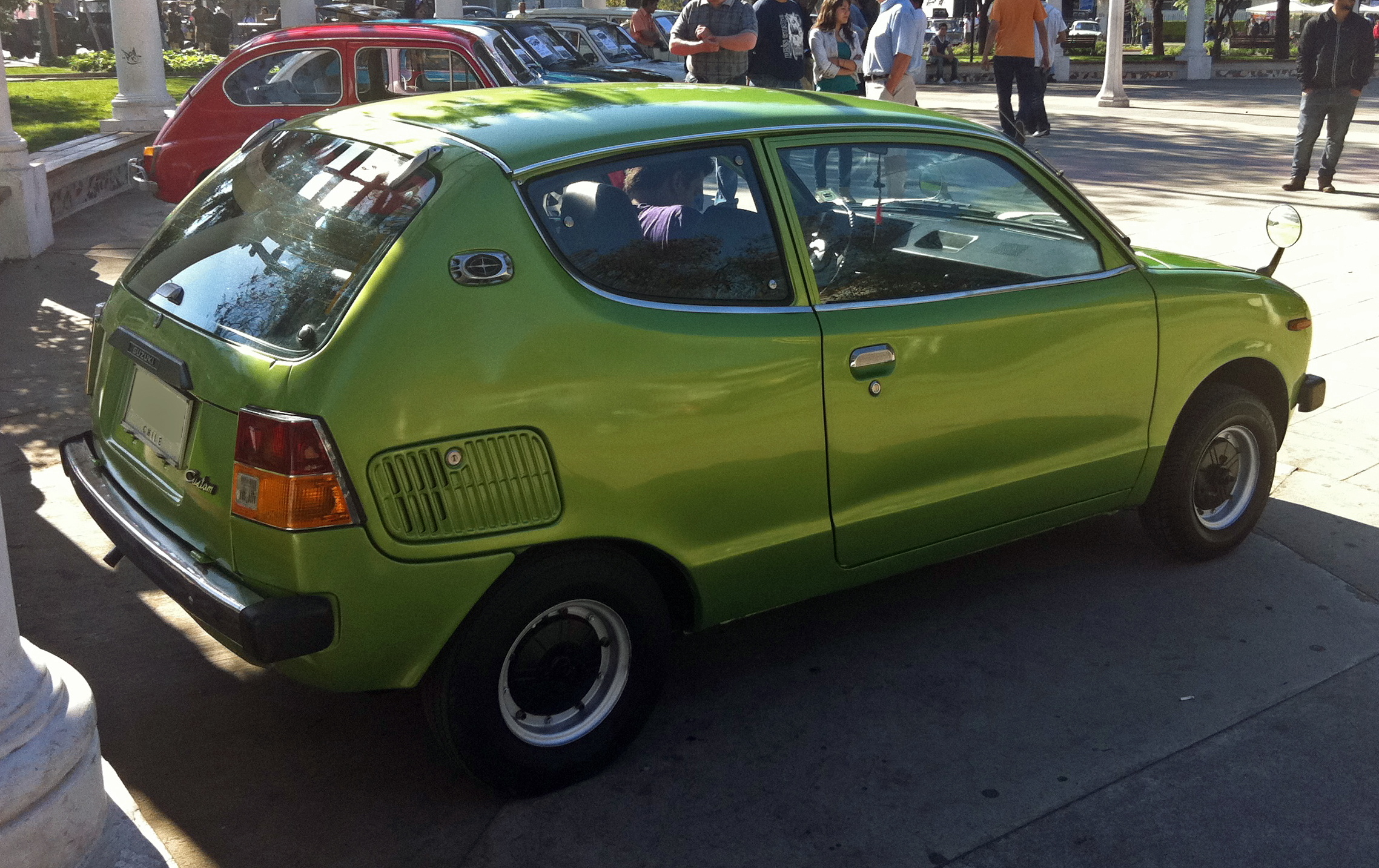 1977 Suzuki SS10 Custom two-door glassback. Chilean market car with left-hand drive, photo by the then-owner who also restored it.